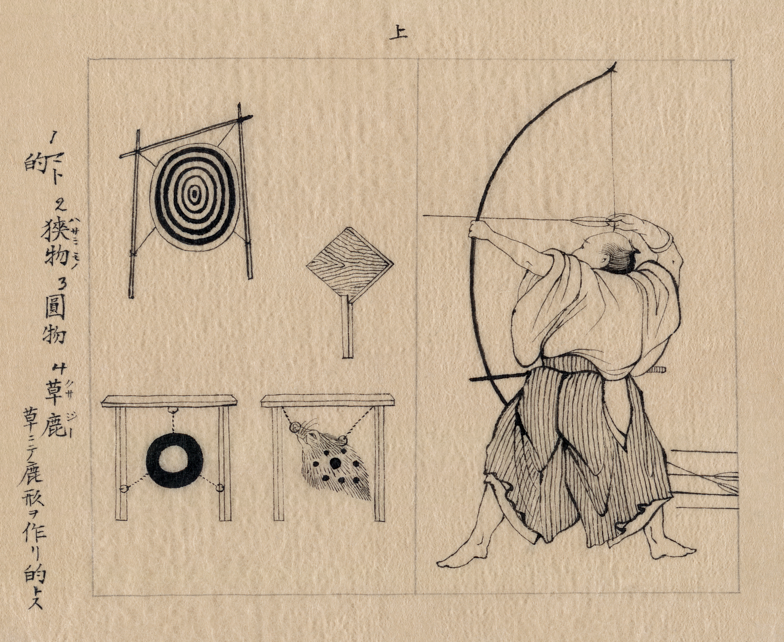 [Warrior, full-length, facing left, with bow drawn, about to shoot an arrow, includes several types of targets] 1 drawing : ink ; 8 x 9.7 (image), 11.9 x 12.4 cm (sheet)